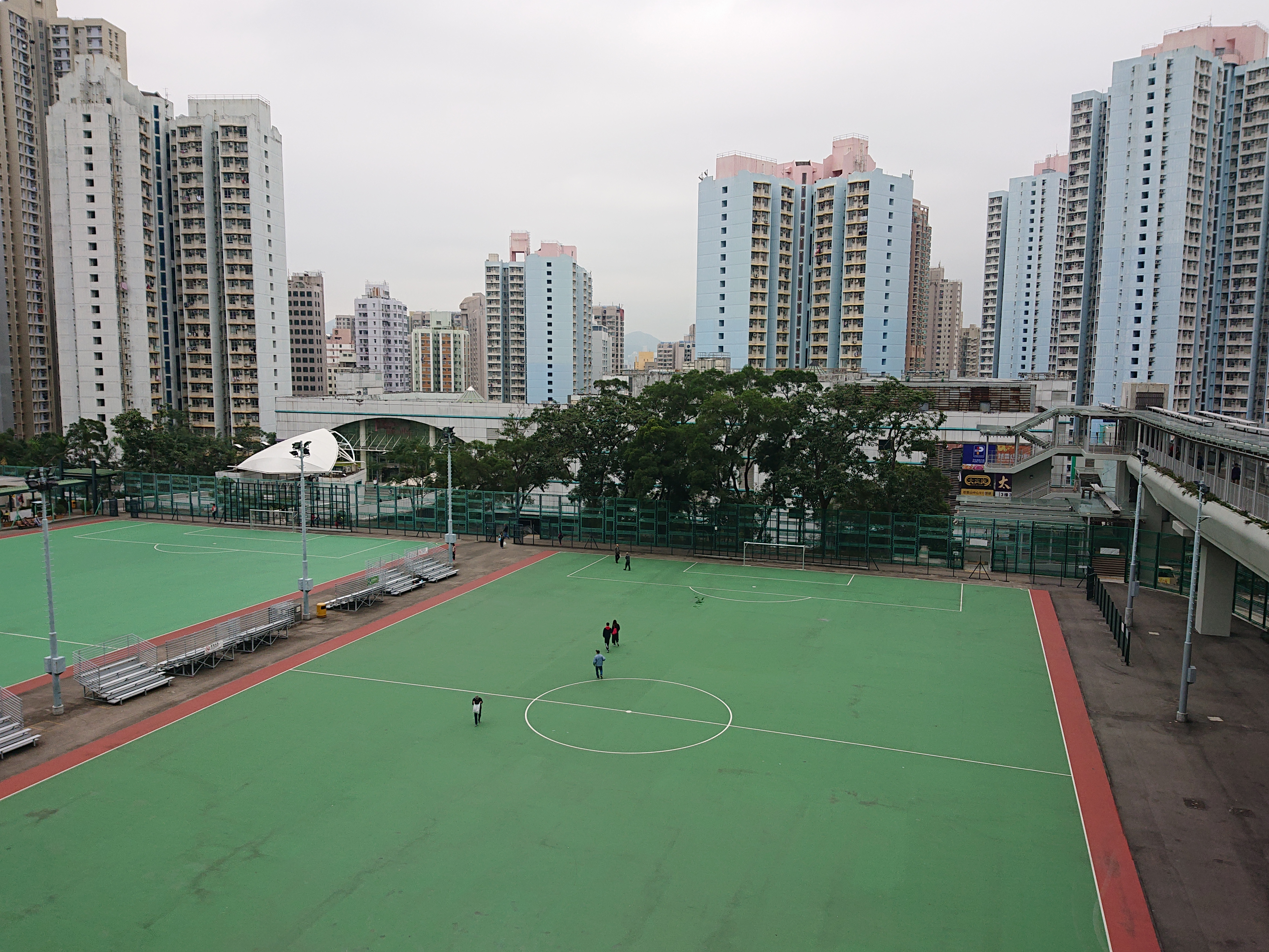 Tsz Wan Shan Estate Central Playground viewed from North